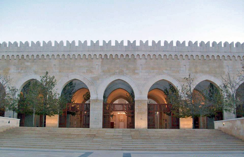 Yard of King Hussein Mosque in Amman